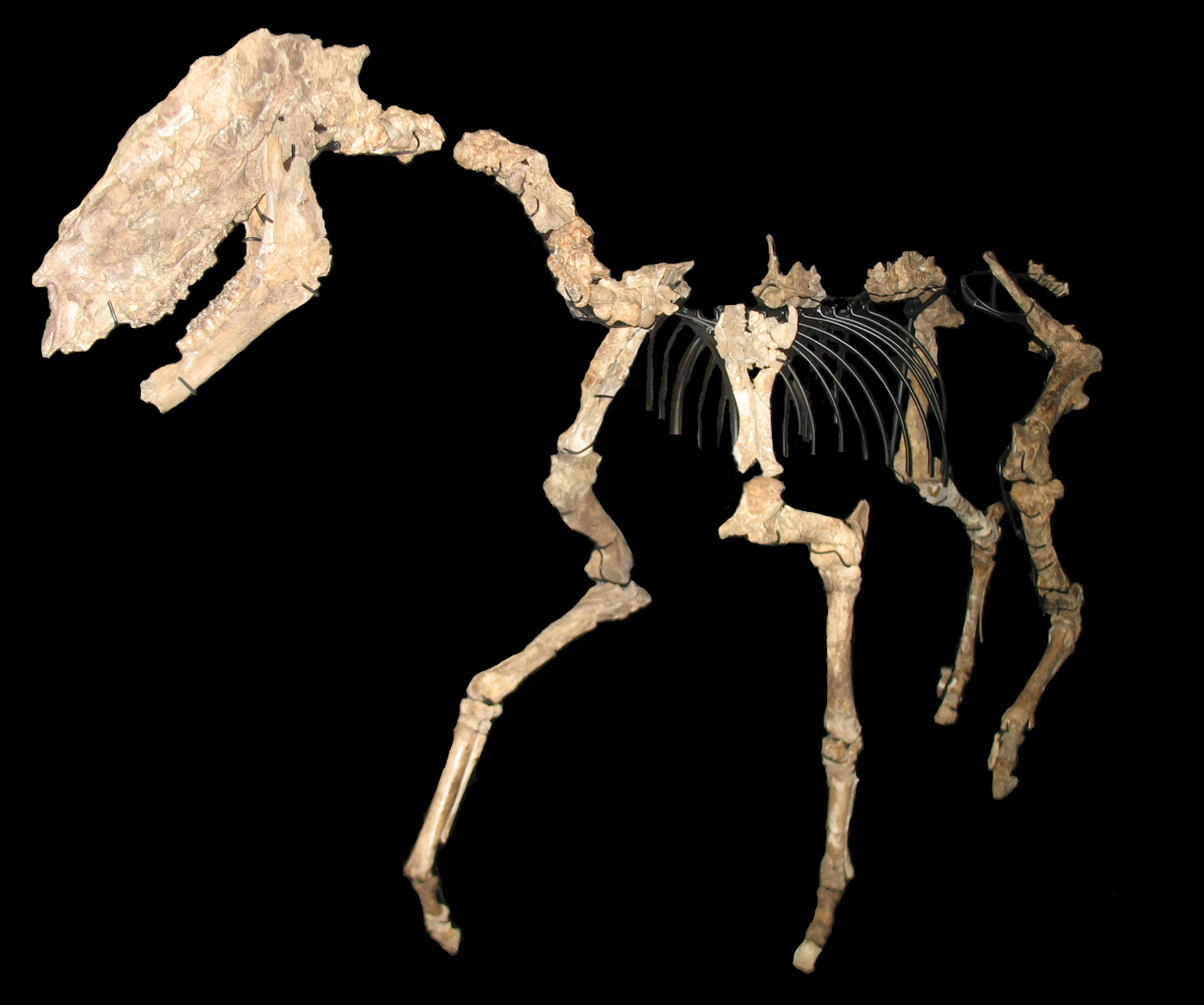 Hipparion laromae skeleton fossils from the La Roma 2 paleontological site (Alfambra, Teruel, Spain). Later Vallesian age (MN10, J3). Skeleton exposed in Dinópolis (Teruel, Spain), assembled from remains of different individuals.